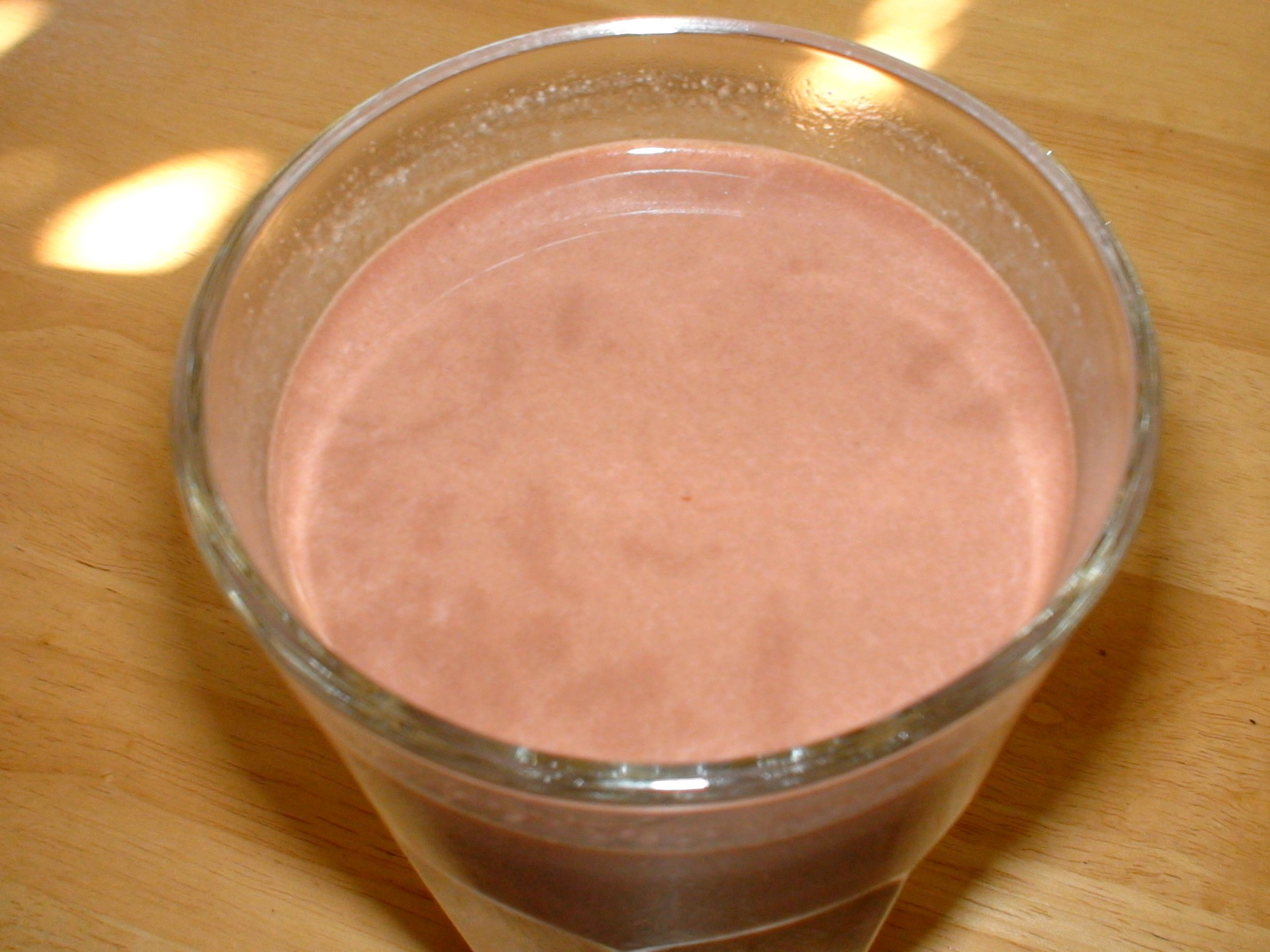 A glass of chocolate milk.